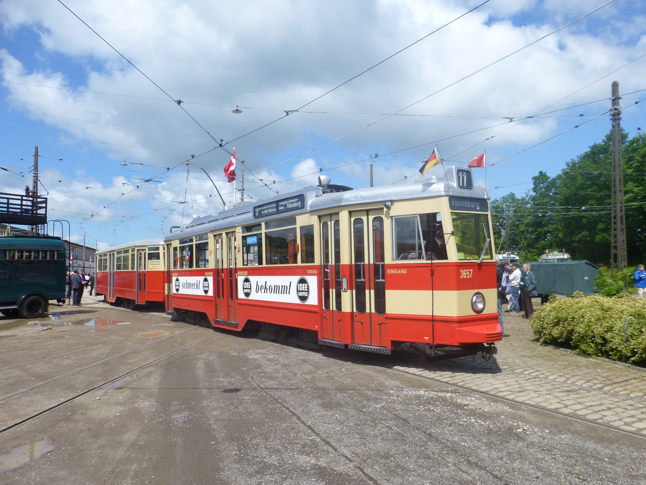 Tram parade at Sporvejsmuseet Skjoldenæsholm due to celebrating of 50 years of the Danish tramway society, Sporvejshistorisk Selskab. Tram from Hamburg, HHA 3657 from 1952 and HHA 4384 from 1957.